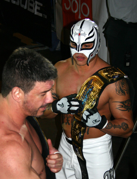 Rey Mysterio and Eddie Guerrero after trying to steal the WWE tag Team Championships from then Champs (The Basham Brothers) during a WWE house show held in Kitchener, Ontario, Canada on January 22, 2005.